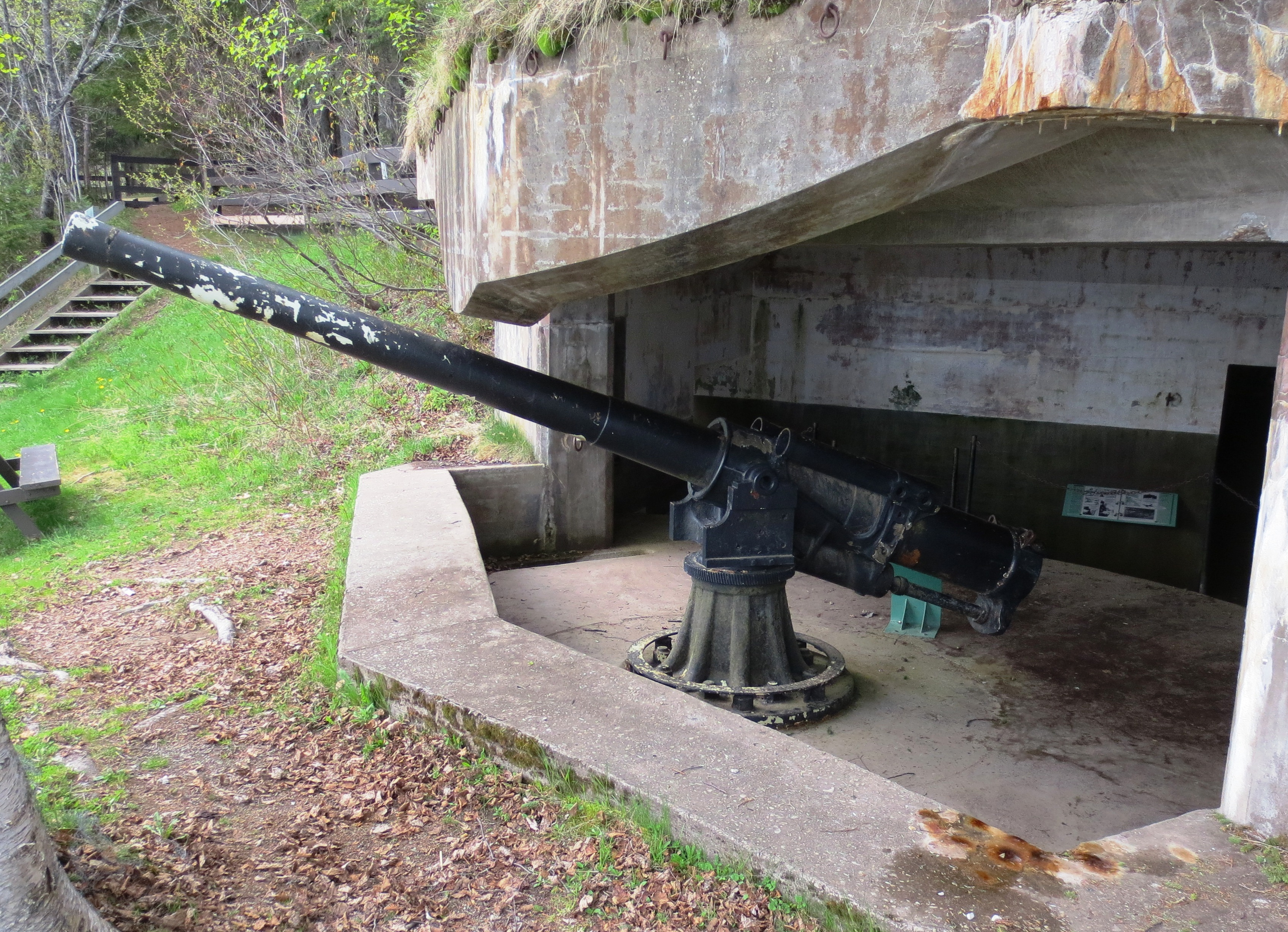 Fort Peninsula, Quebec, Ordnance QF 4.7-inch B Mk. IV Star Gun, 1902, mounted on No. 2748 CARR TRAV REc No. C9703, TEST.T.T.2, on a Central Pivot Mount Mk I. No. 2 of two which defended the site during the Second World War.